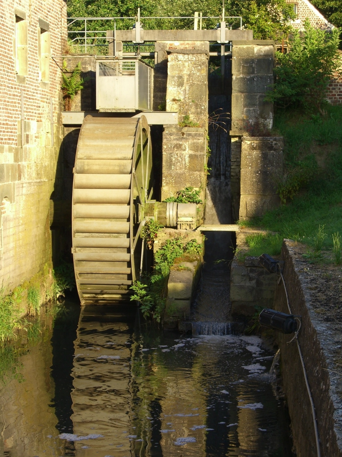 Het bovenslagrad van de Watermolen Sint-Gertrudis-Pede (Dilbeek)